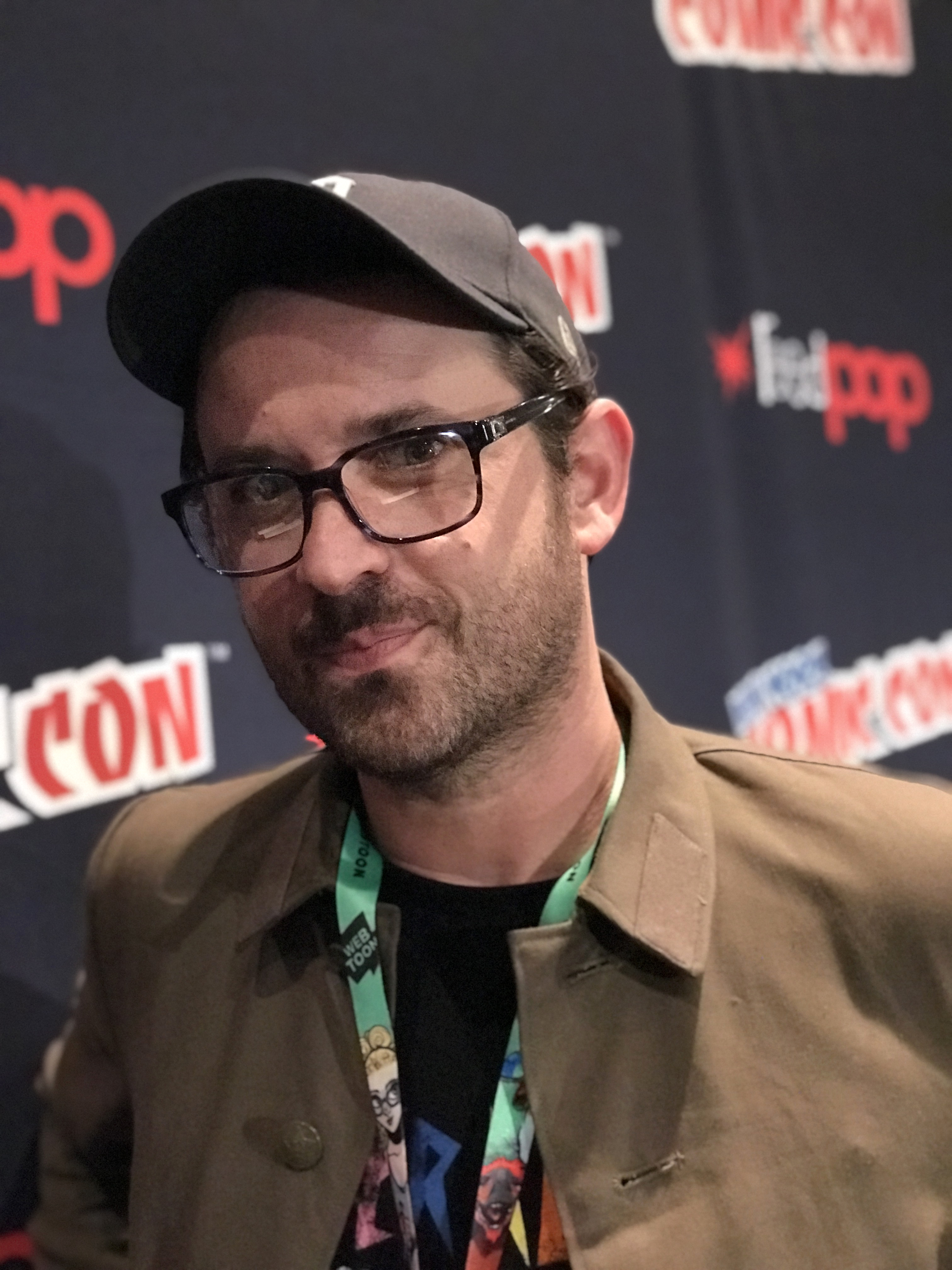 Fantasy author Josh Malerman at the "A Wizard, a Dragon and a Zombie Traverse Into a Story" panel discussion at the Jacob K. Javits Convention Center in Manhattan on Sunday, October 8, 2017, Day 4 of the 2017 New York Comic Con. This photo was created by Luigi Novi. It is not in the public domain, and use of this file outside of the licensing terms is a copyright violation.